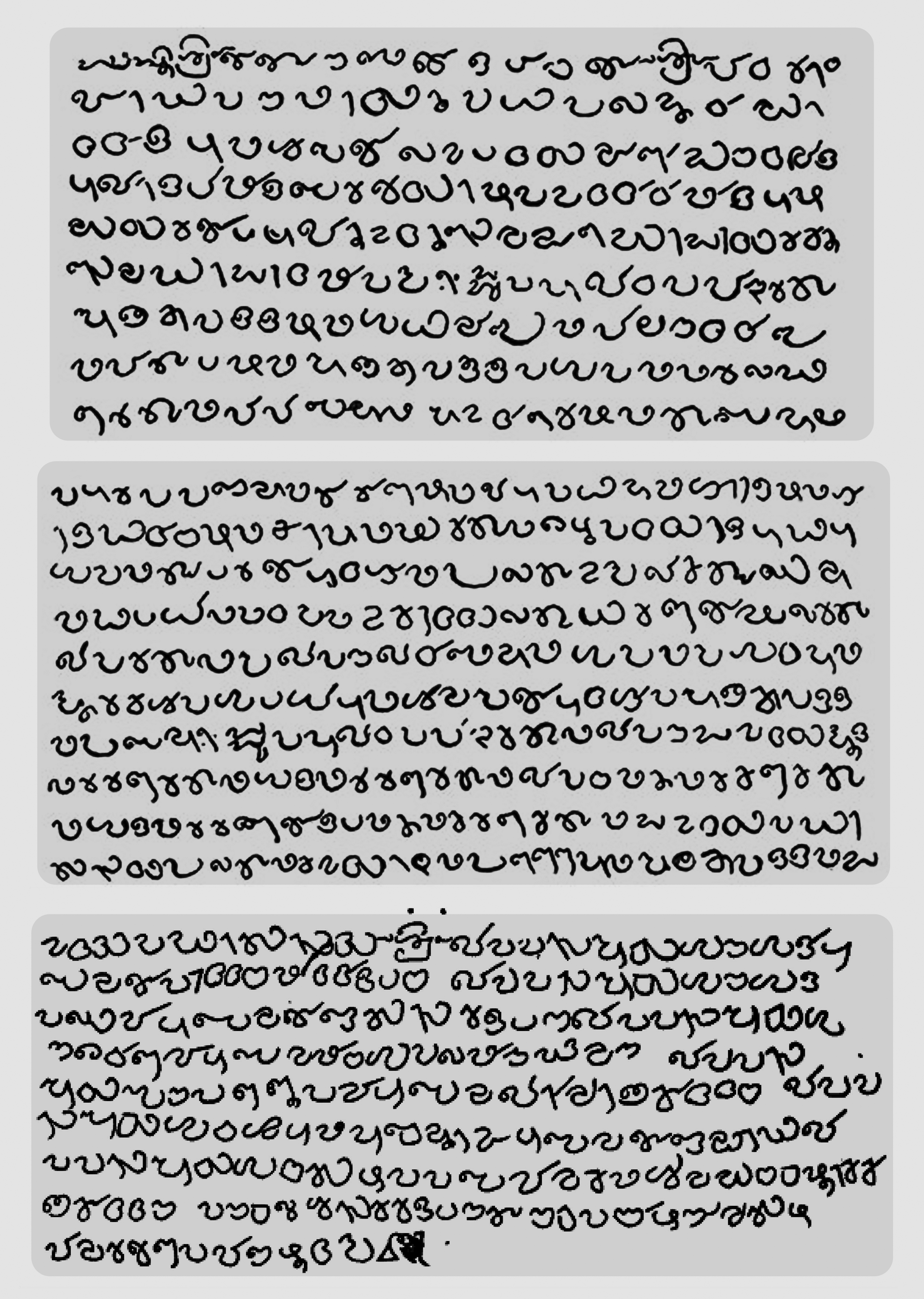 Derived from Epigraphica India, E. Hultzsch